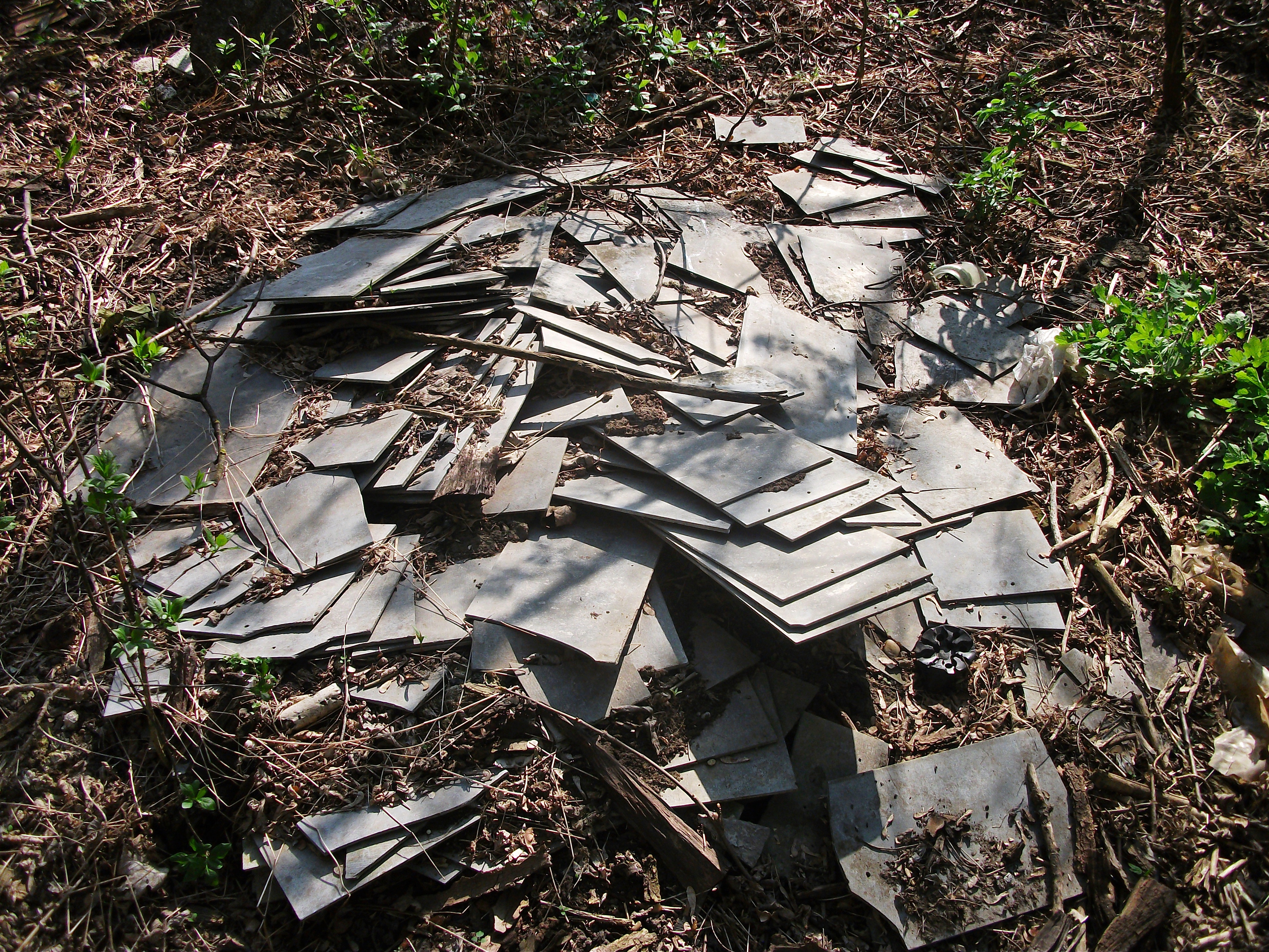 Construction waste in forest in Zichyújfalu, Hungary.